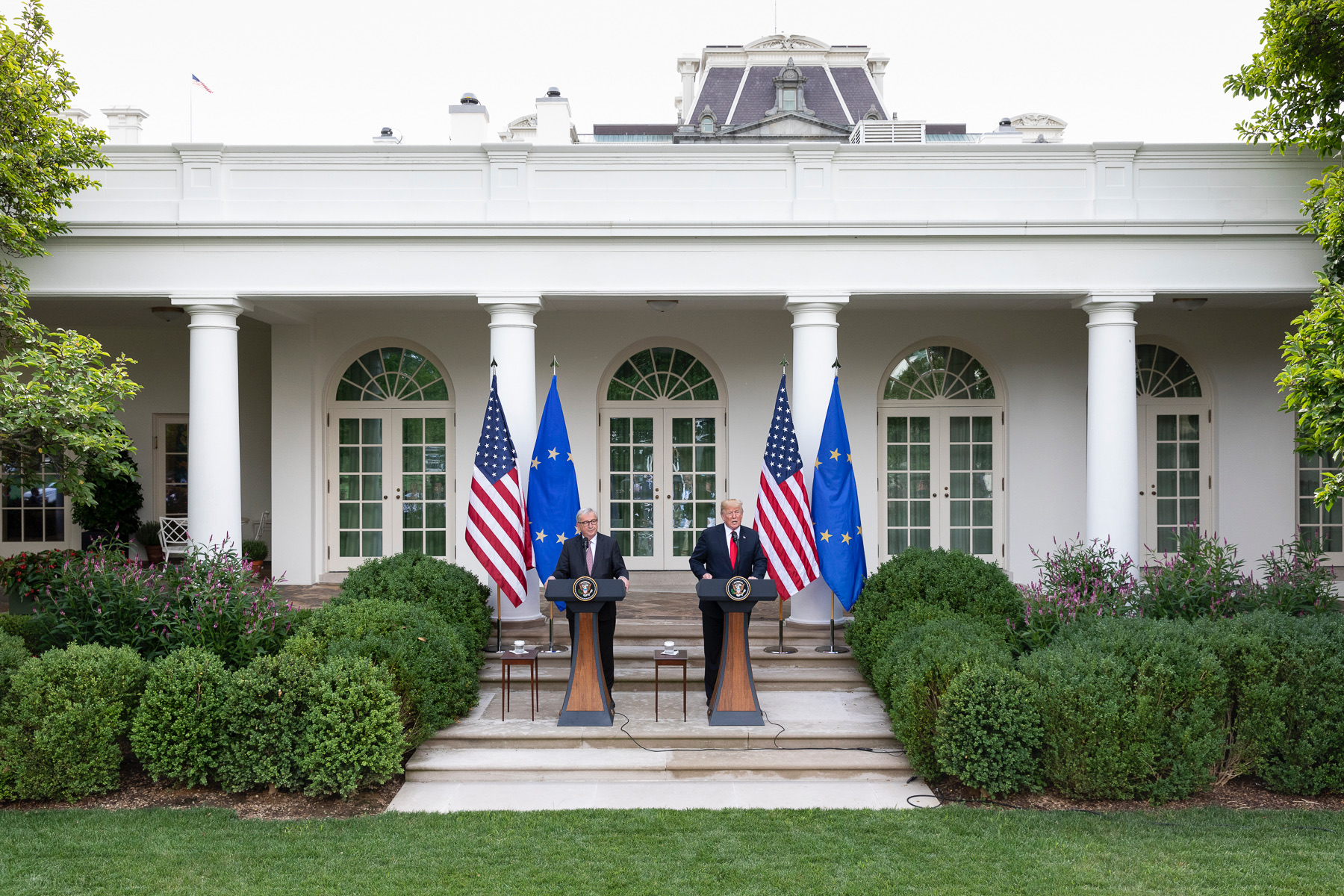 Jean-Claude Juncker and Donald Trump, 2018-07-25.